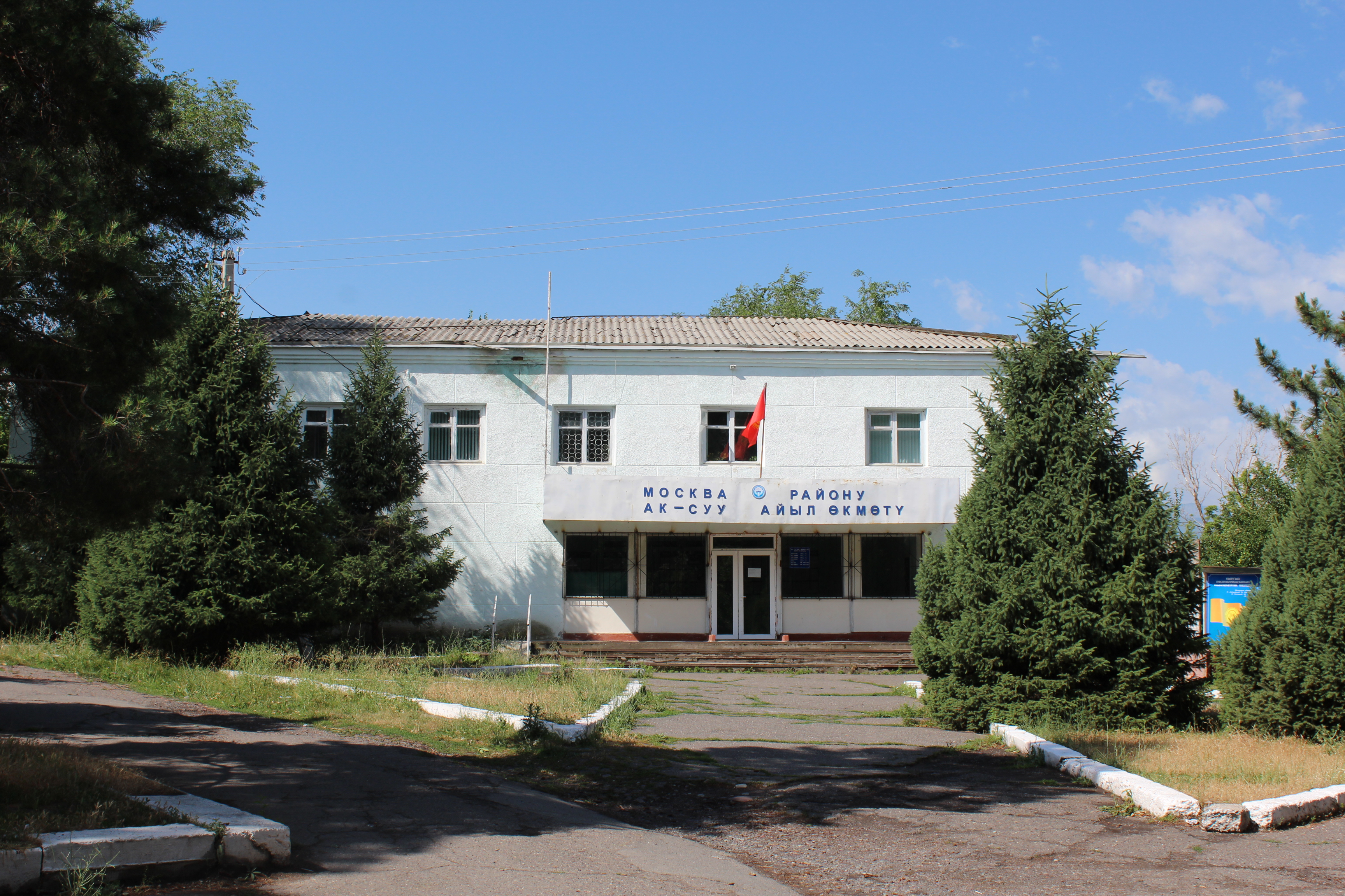 The administrative center of the Aq-Suu village council in Temen-Suu, Kyrgyzstan